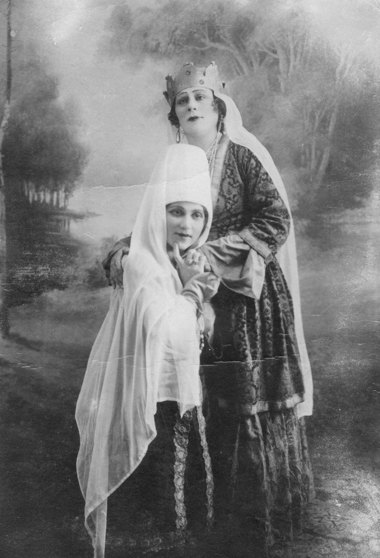 M. Davudova as Almaz and Q. Topuria as Dilshad in "Lane Timur" by Husein Javid.